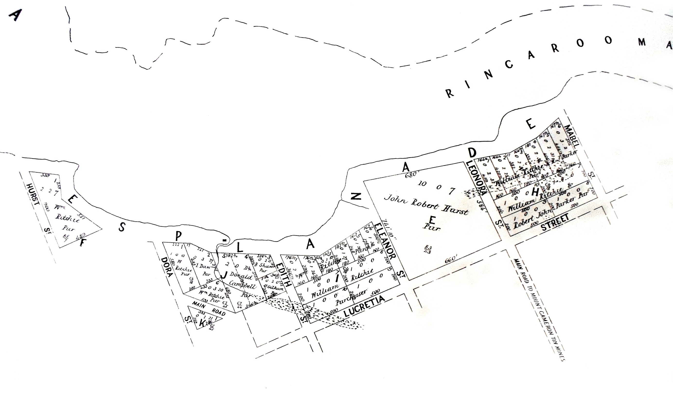 Late 1800s plan of the port town of Boobyalla in NE Tasmania showing property borders and owners.